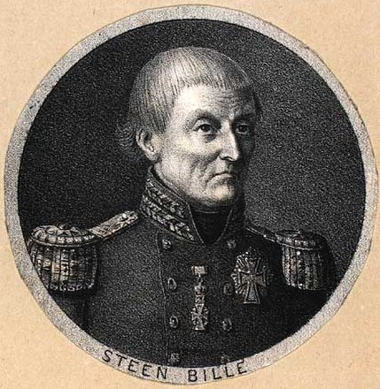 Steen Andersen Bille (1751-1833), Danish Admiral and Privy Councillor